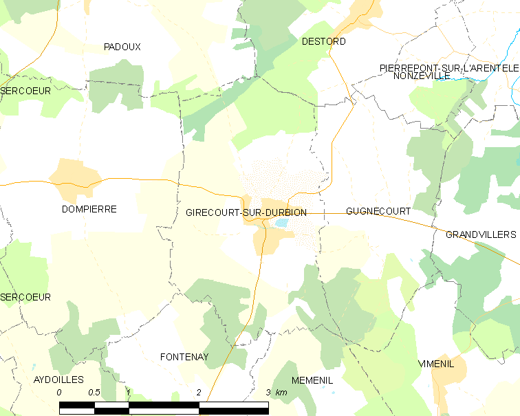 Map of French municipality Girecourt-sur-Durbion